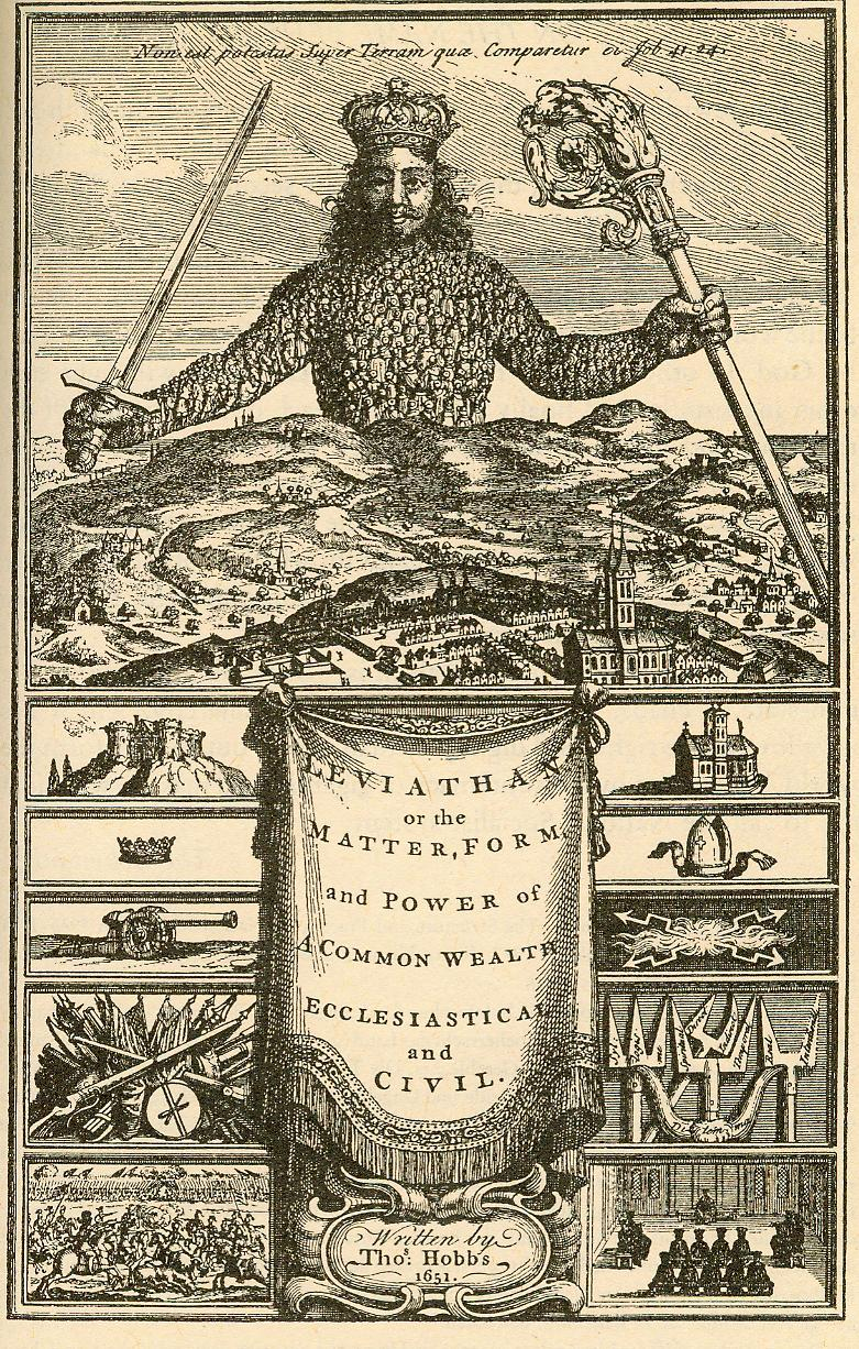 Thomas Hobbes Leviathan